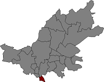 Location of Garidells in Alt Camp